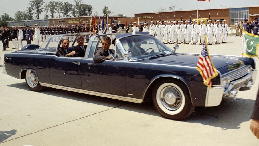 Arrival ceremonies motorcade for President Mohammad Ayub Khan of Pakistan. In car (Lincoln Continental with bubble top): Secret Service Agent Gerald “Jerry” Behn (front seat, left); Military Aide to the President General Chester V. Clifton (front seat, center; mostly hidden); Secret Service agent William Greer (driving); President Mohammad Ayub Khan (back seat, left); President John F. Kennedy. United States Air Force and Navy Honor Guards in background. Andrews Air Force Base, Maryland.